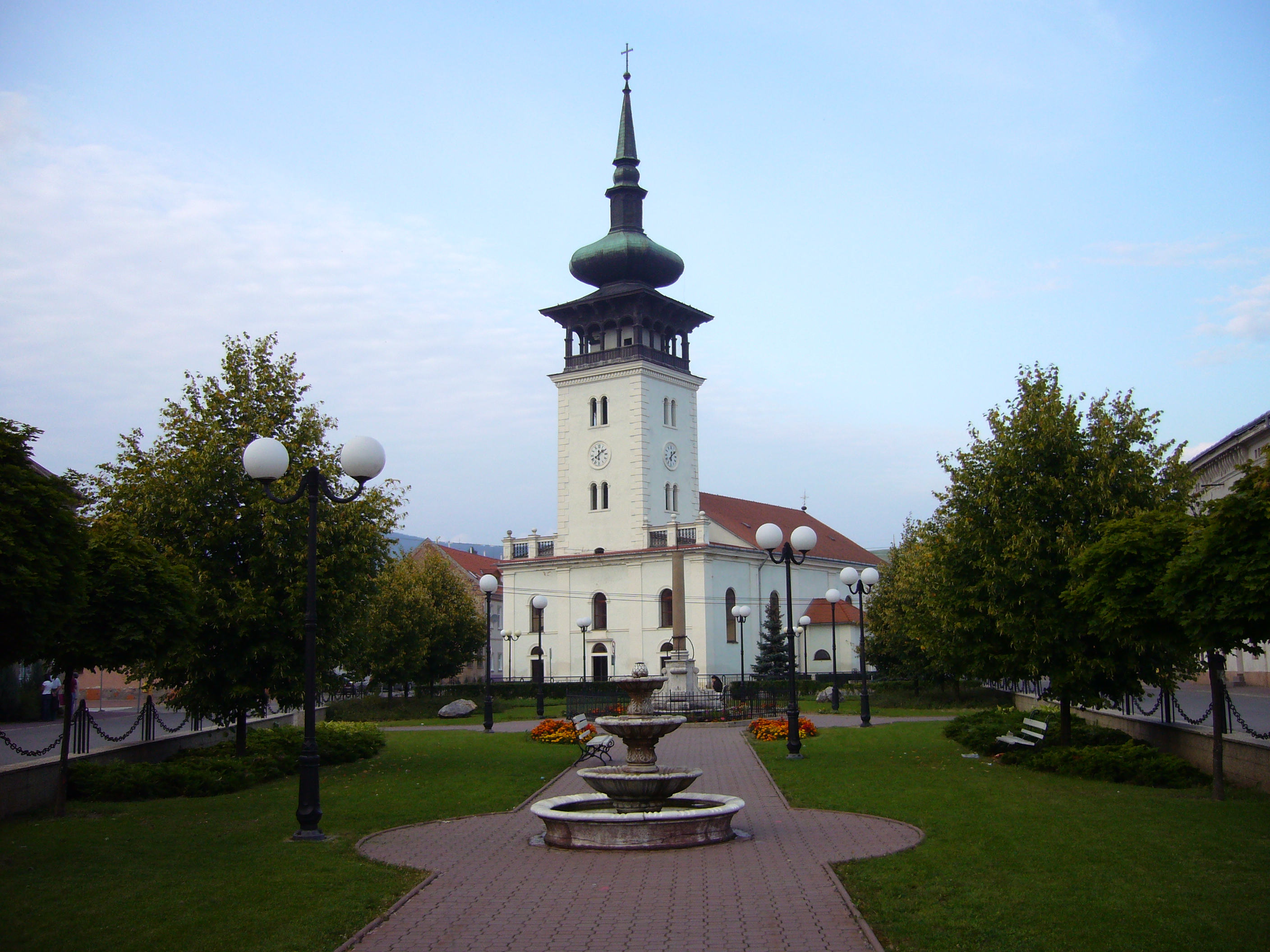 Church in Nižný Medzev (East Slovakia).